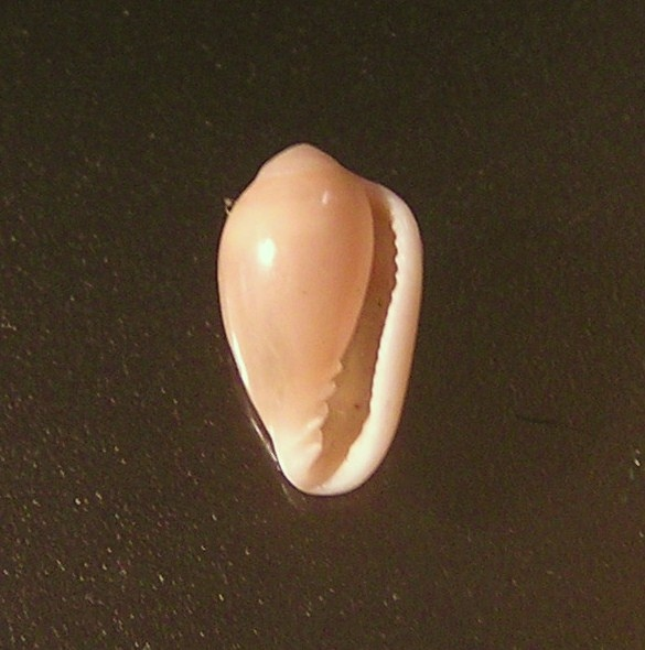 Hyalina keenii (Marrat, 1871) , a margin snail from the family Marginellidae; South Africa